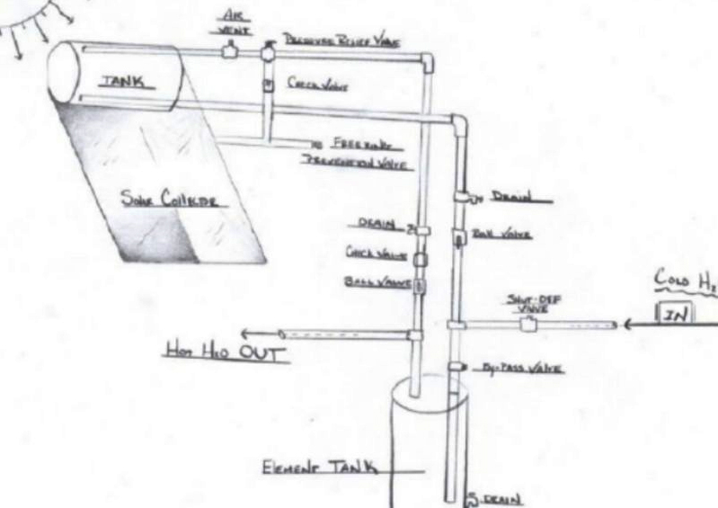 Active